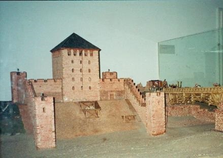 Modell valentinian burgus Ladenburg, state 370 n.Chr., river Neckar, Germany. The bridge shown in the modell did never exist.